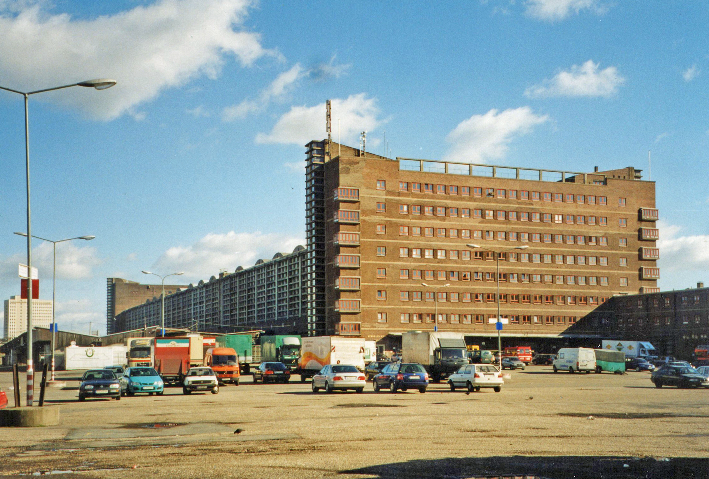 Wholesale market in Frankfurt, in operation 2002